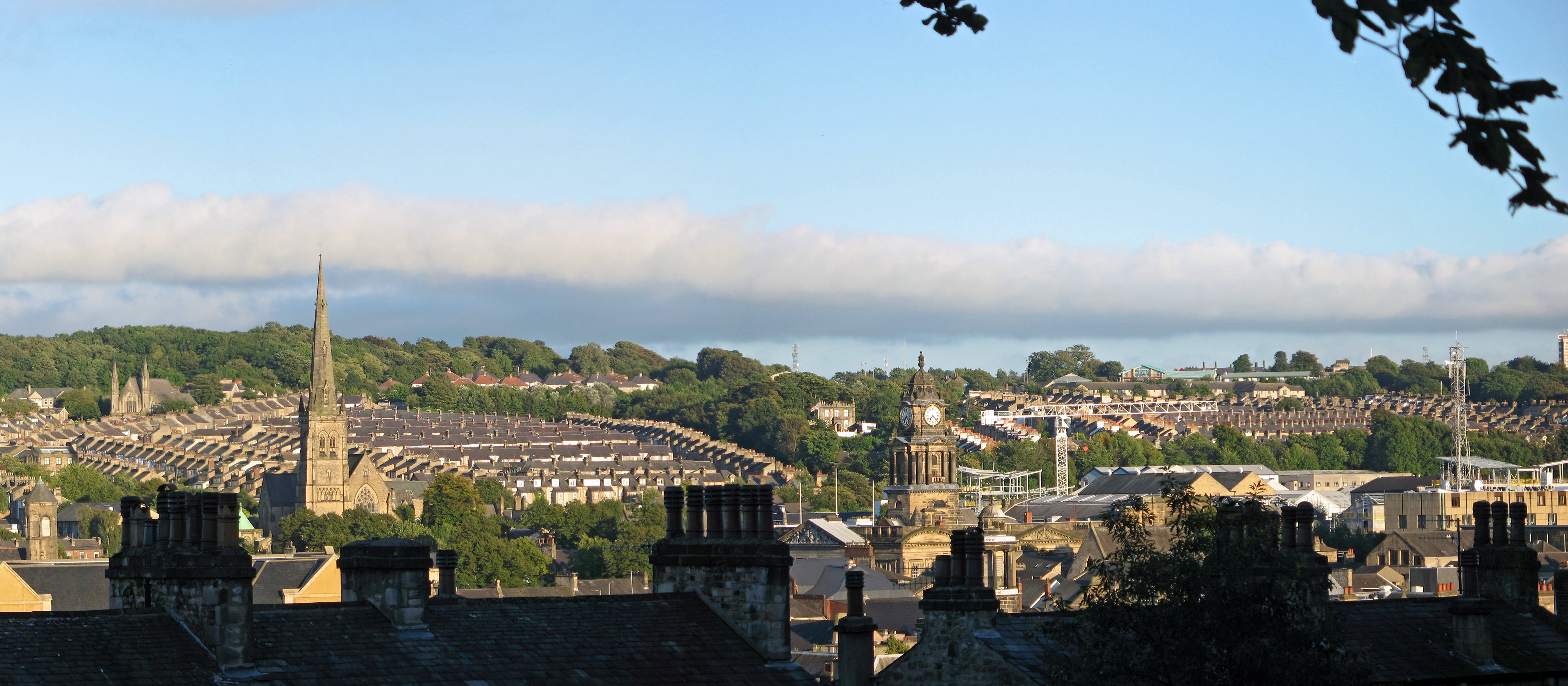 A panorama across Lancaster, Lancashire, England.